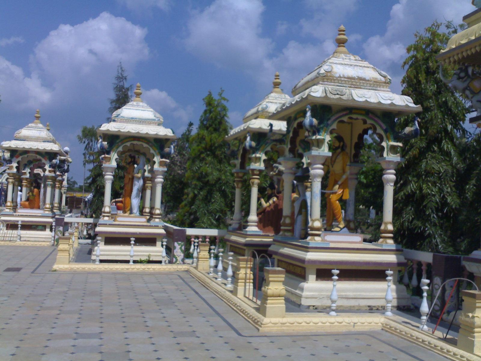 Kudalasangama, North Karnataka Source and Author : Manjunath Doddamani, Gajendragad / Hubli, Karnataka(India)